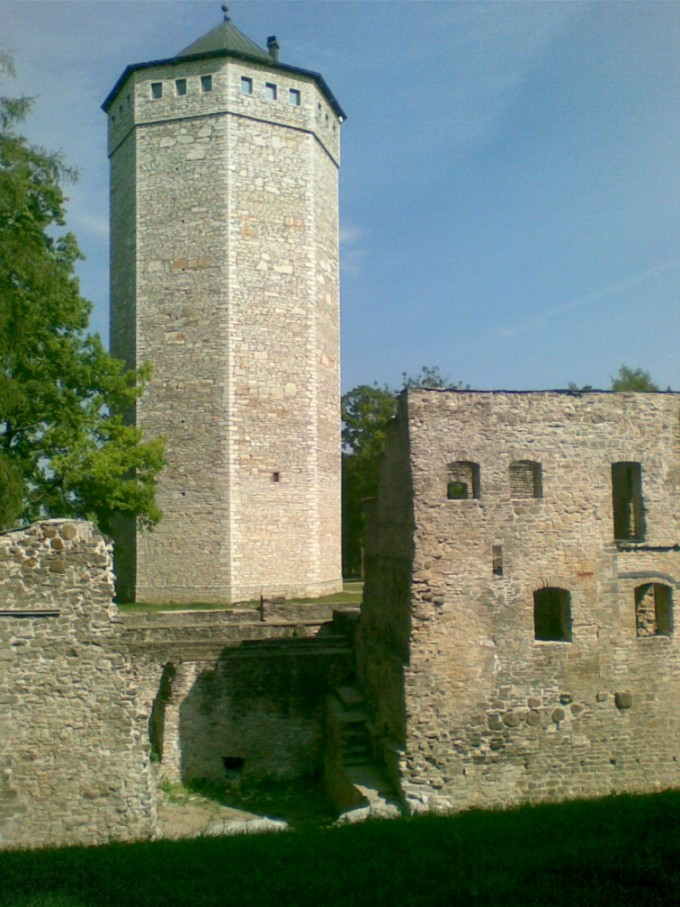 Ruins of Paide order castle.